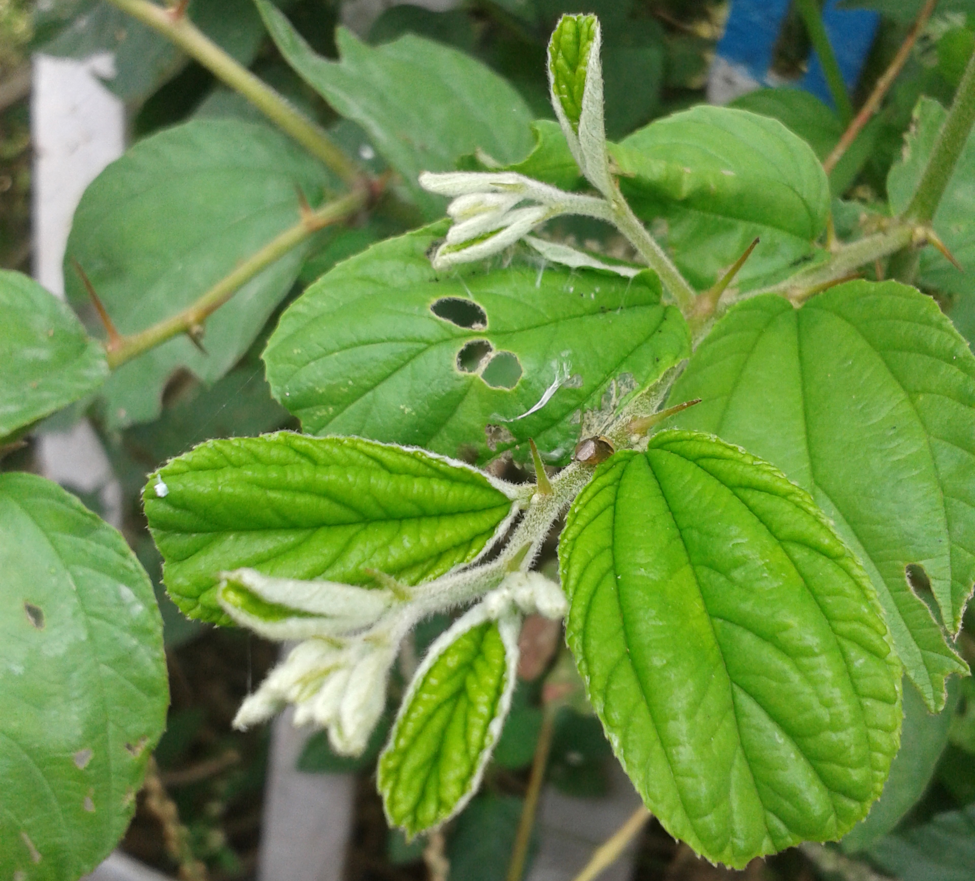 (Ziziphus jujuba) Foliage at Ammuguda Railway Station, Hyderabad